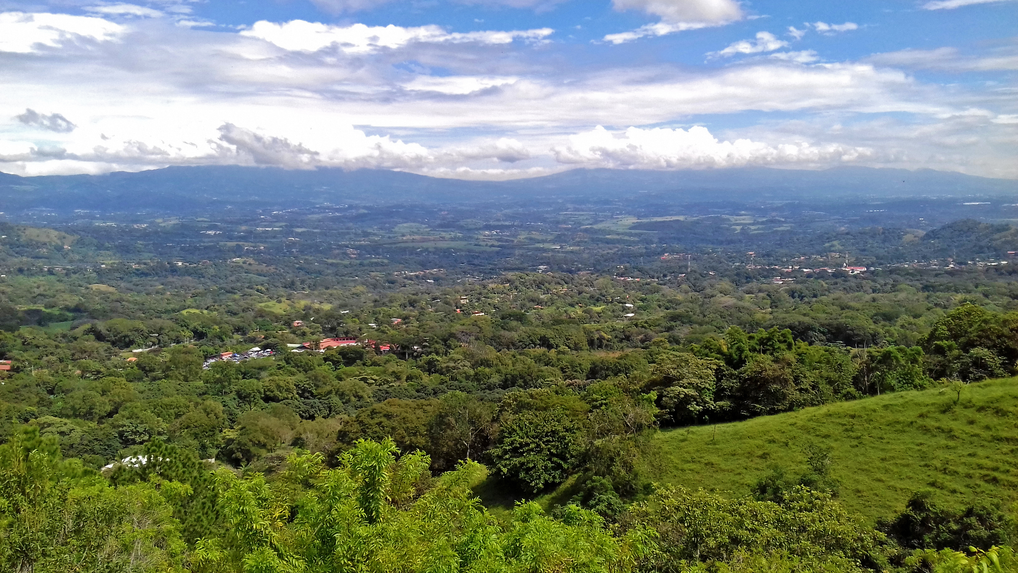 Atenas in Costa Rica seen from Vista Atenas